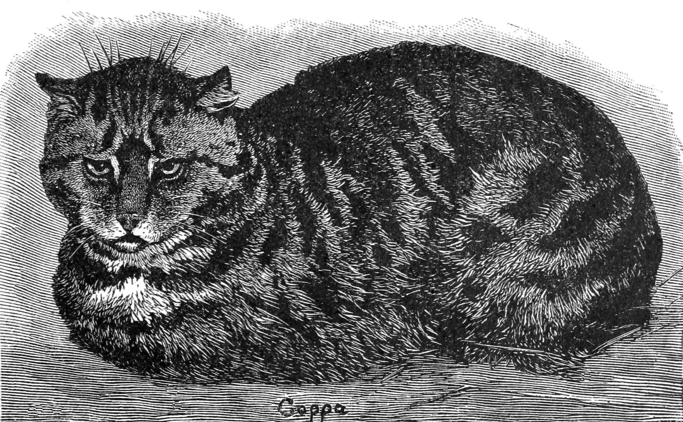 English tabby cat